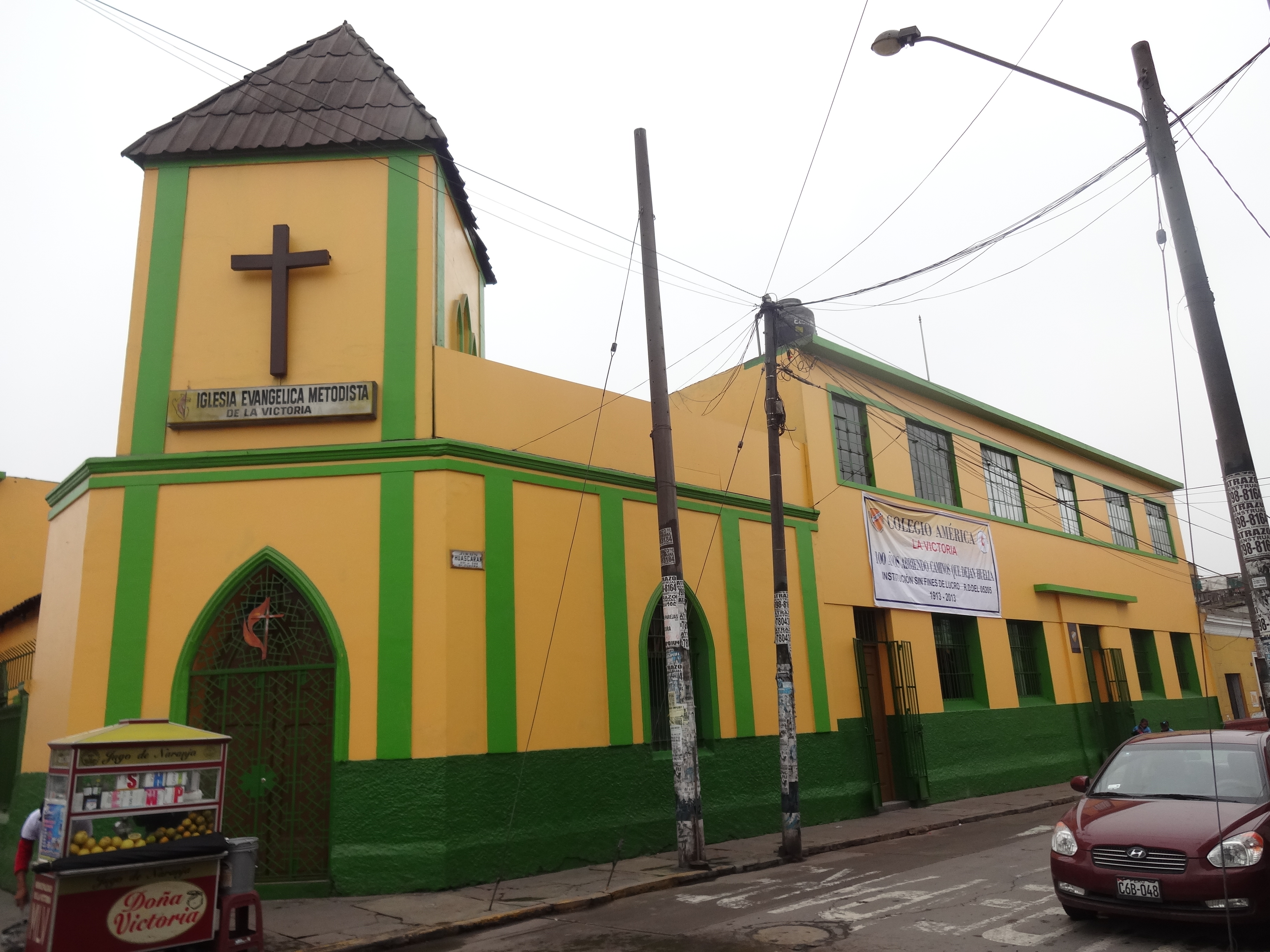 America School in La Victoria District, Lima-Peru.